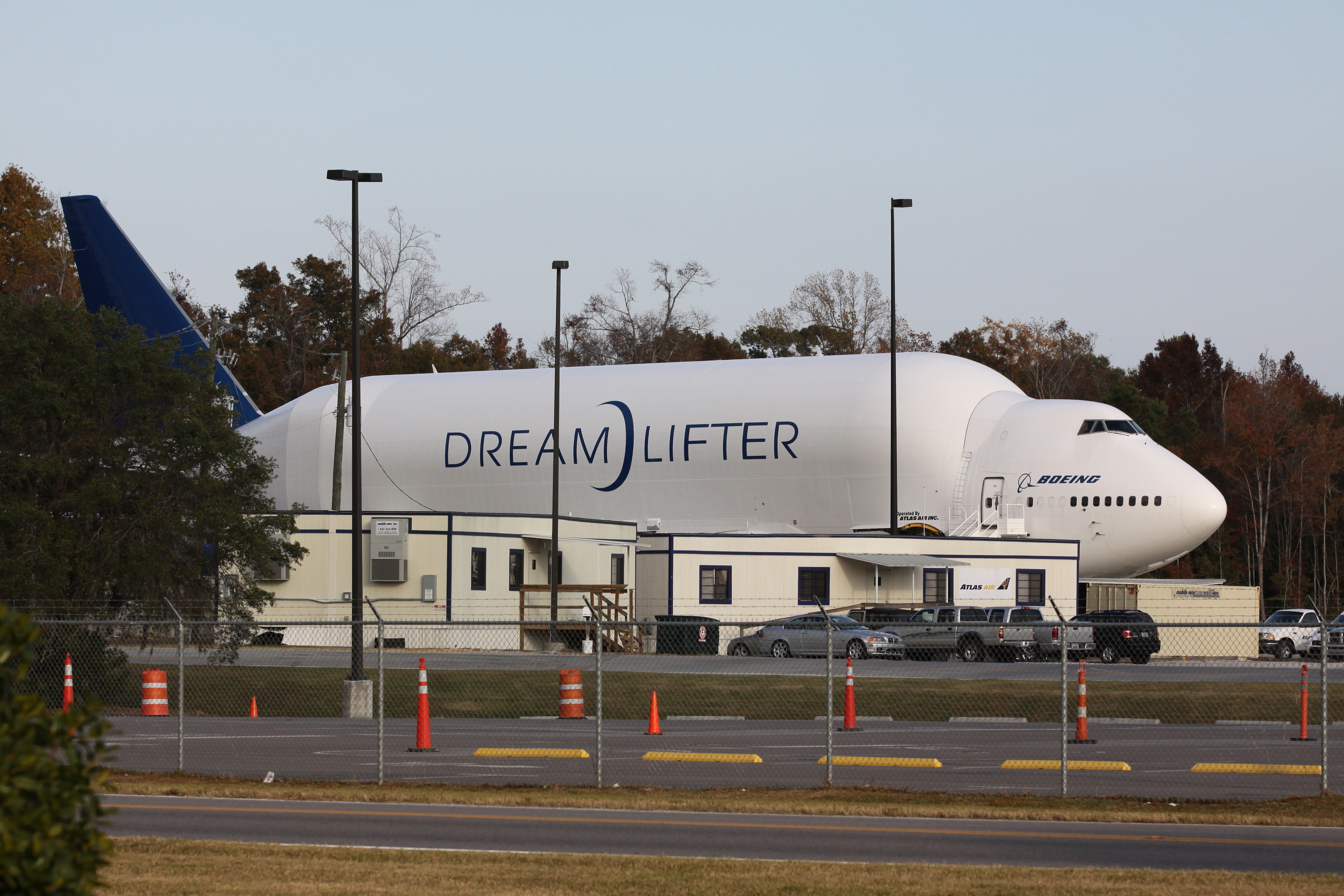 747 Dreamliner at North Charleston, South Carolina